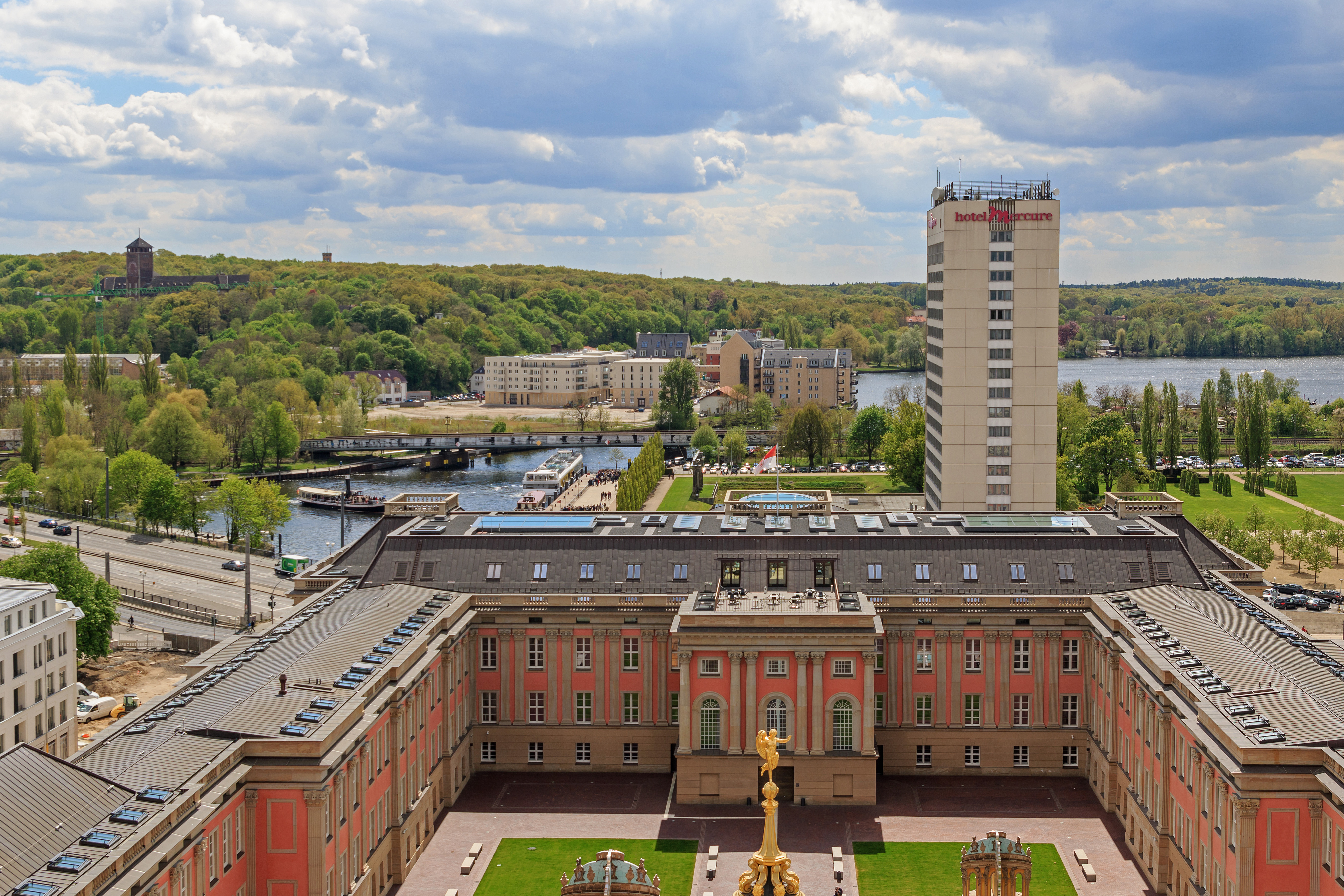 View from St. Nicholas Church in Potsdam